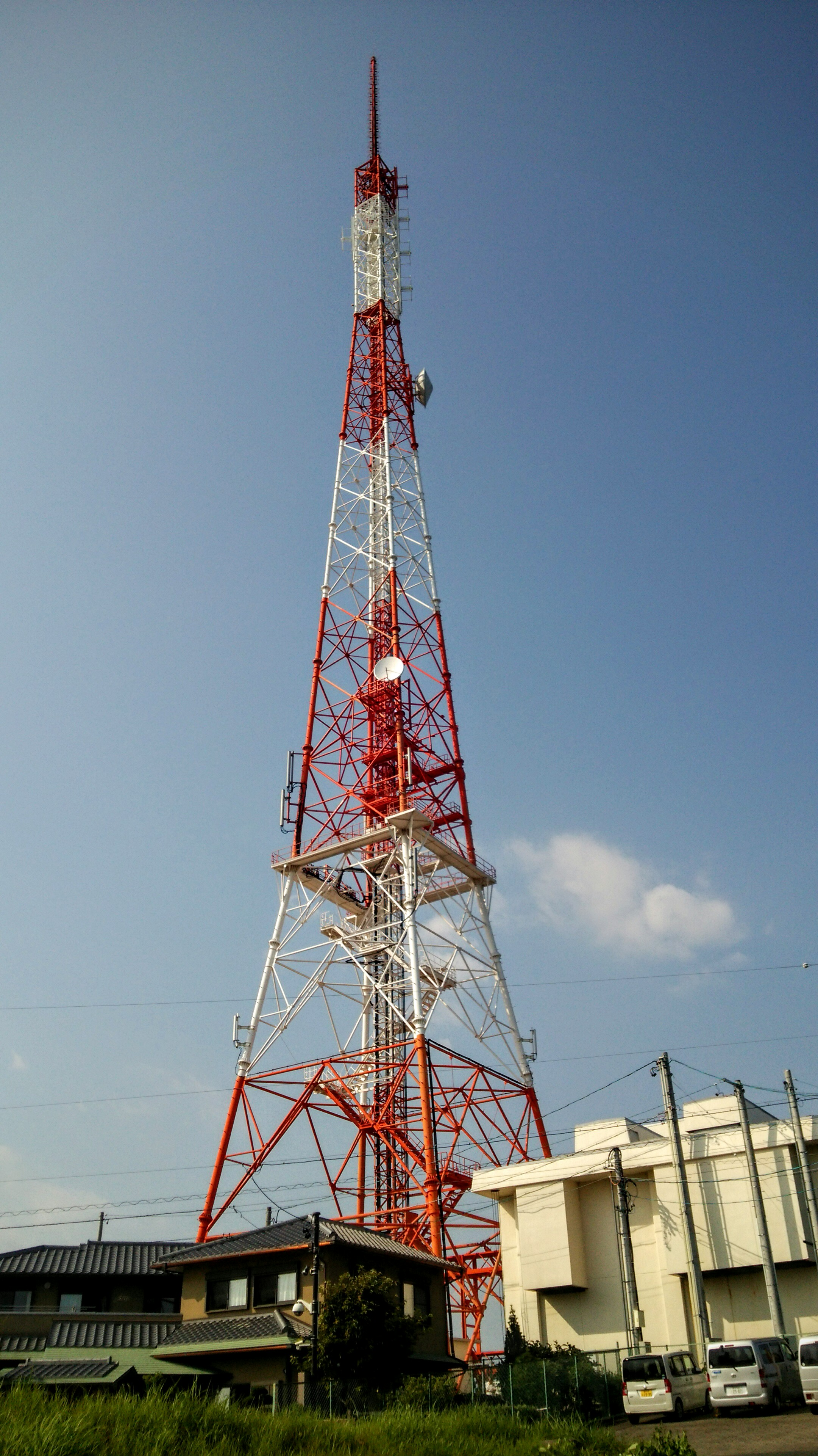 Ohiradai Transmitting Station in Nishi-ku, Hamamatsu (K-mix:82.1MHz, SBS:94.7MHz)